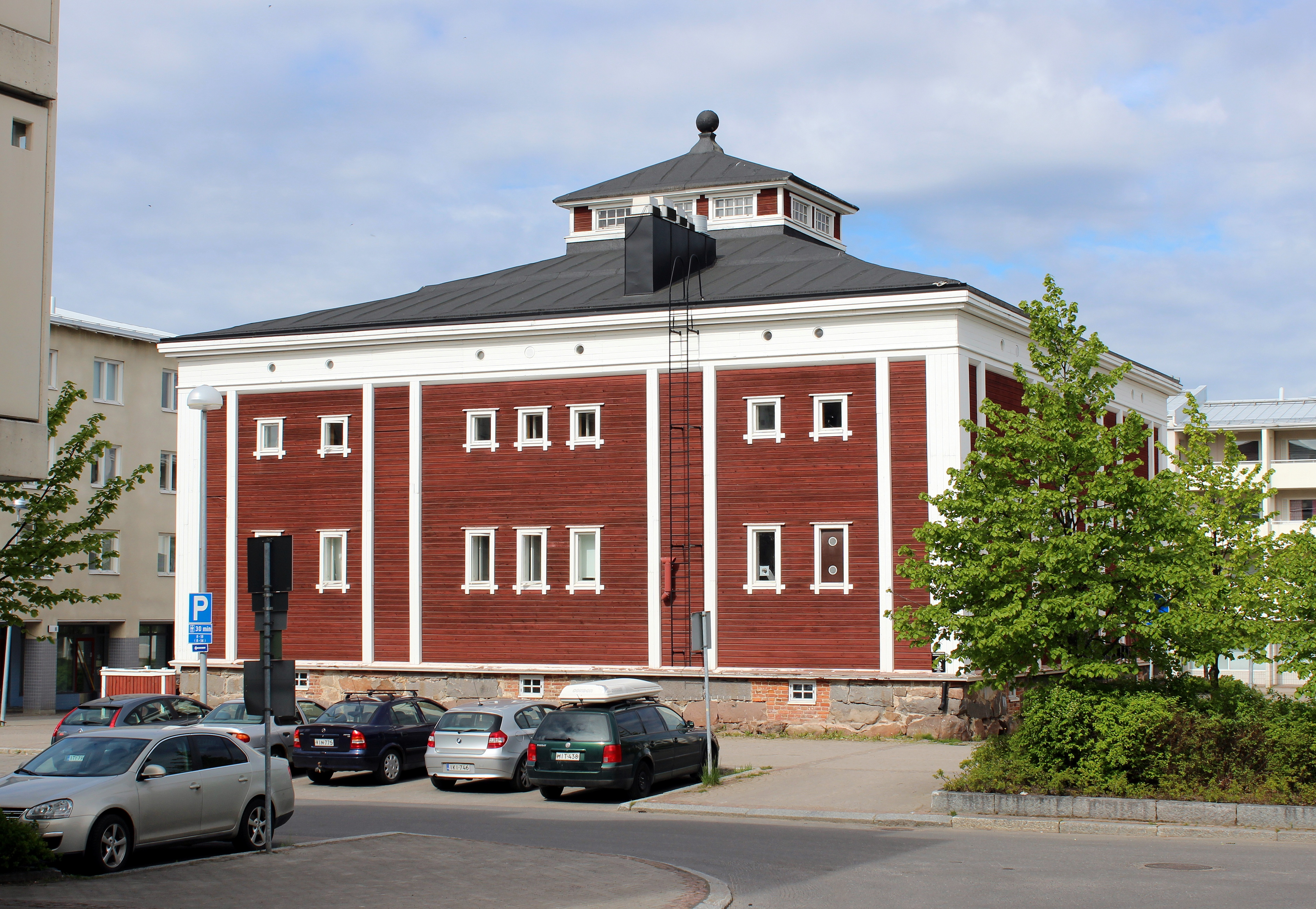 The former state granary in the Myllytulli district in Oulu.